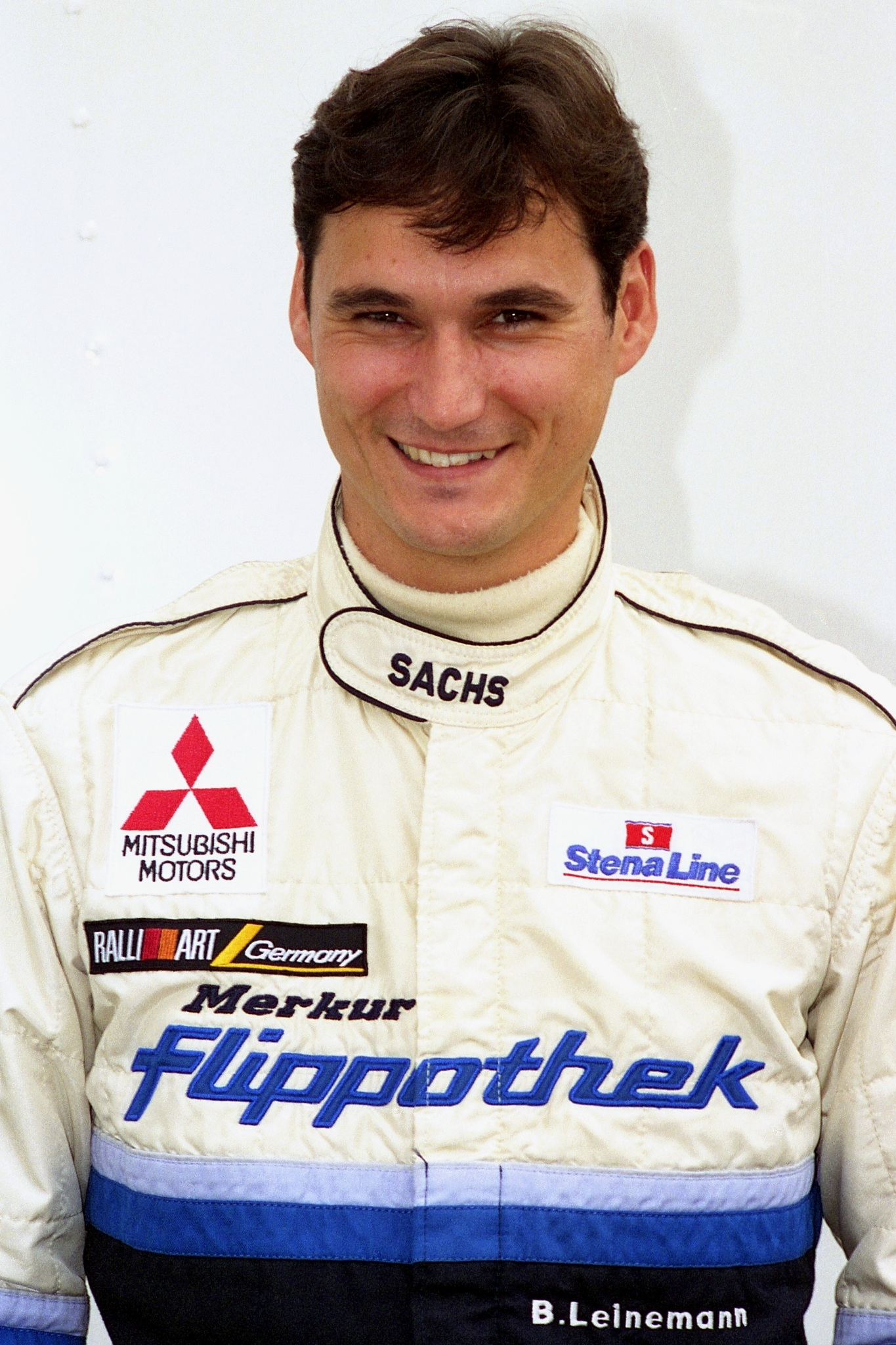 Bernd Leinemann, German, ONS German Rallycross Champion 1992 (Overall) and FIA European Rallycross Vizechampion 1994 (Division 1)